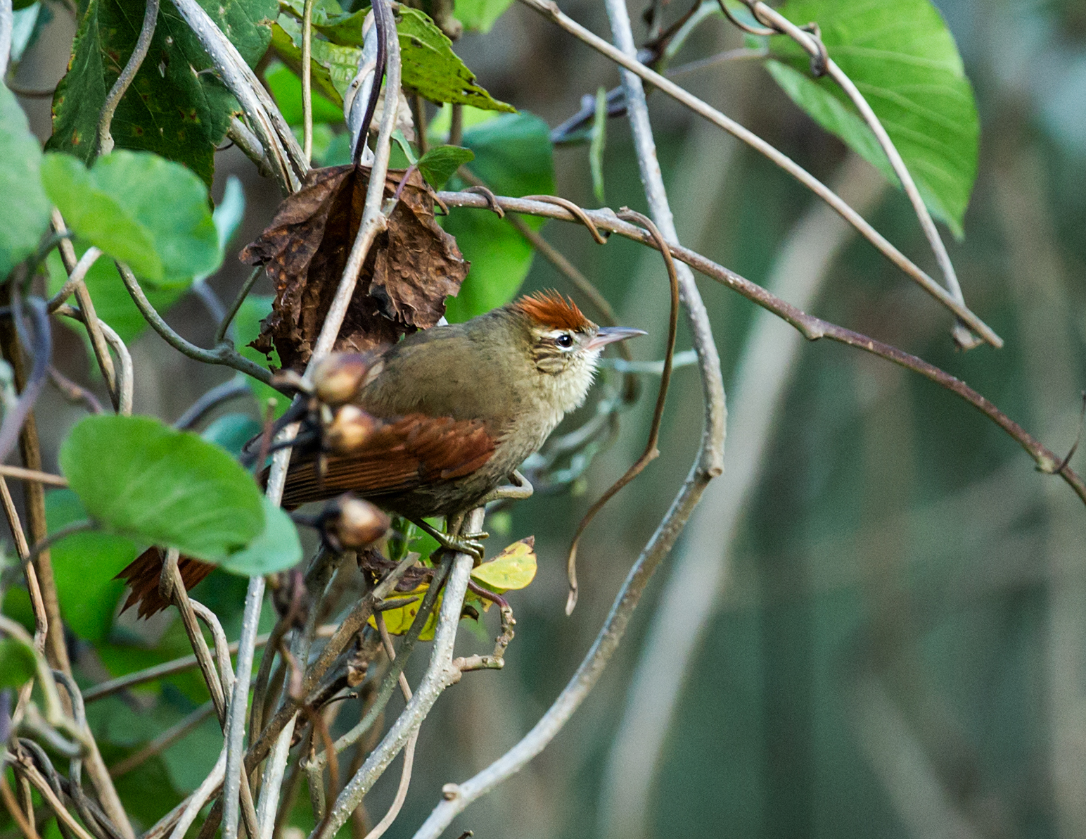 Cranioleuca antisiensis (nominate ssp.) from Las Chinchas, Loja, Ecuador.